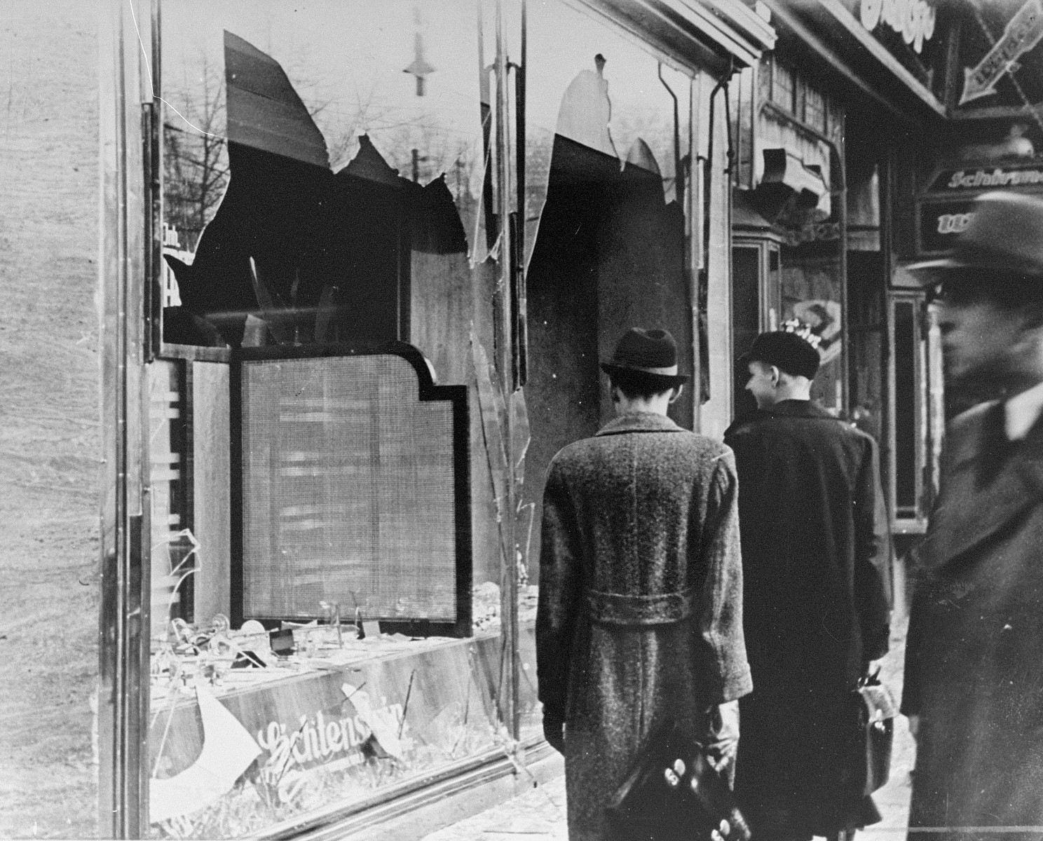 German citizens look the other way on nov. 10 1938, the day after Kristallnacht. What they see or don't want to see are destroyed Jewish shops and houses.